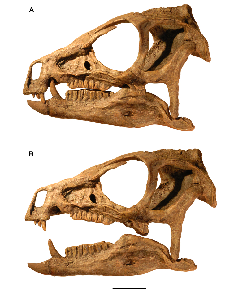 Original description: Relative position of the lower jaw in Heterodontosaurus tucki from the Lower Jurassic Upper Elliot and Clarens formations of South Africa. Position of the lower jaw during occlusion (A) and moderate gape (B) as seen in left lateral view of a cast of the cranium and lower jaws of adult specimen SAM-PK-K1332. Scale bar equals 2 cm.